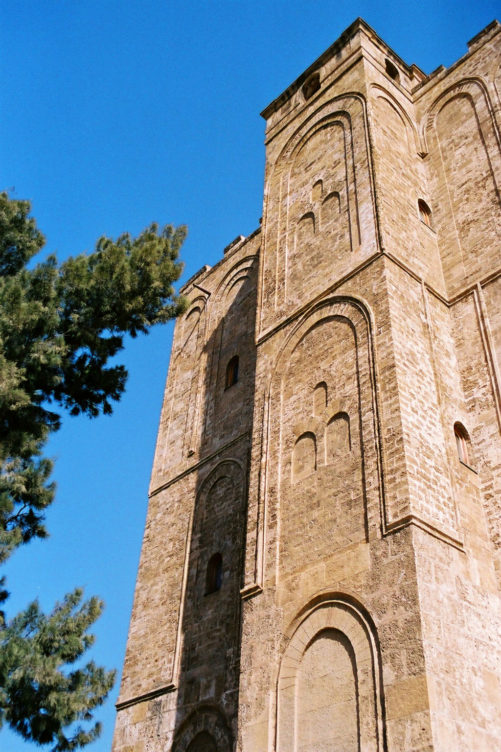 Zisa, Palermo Ventiduct for air conditioning